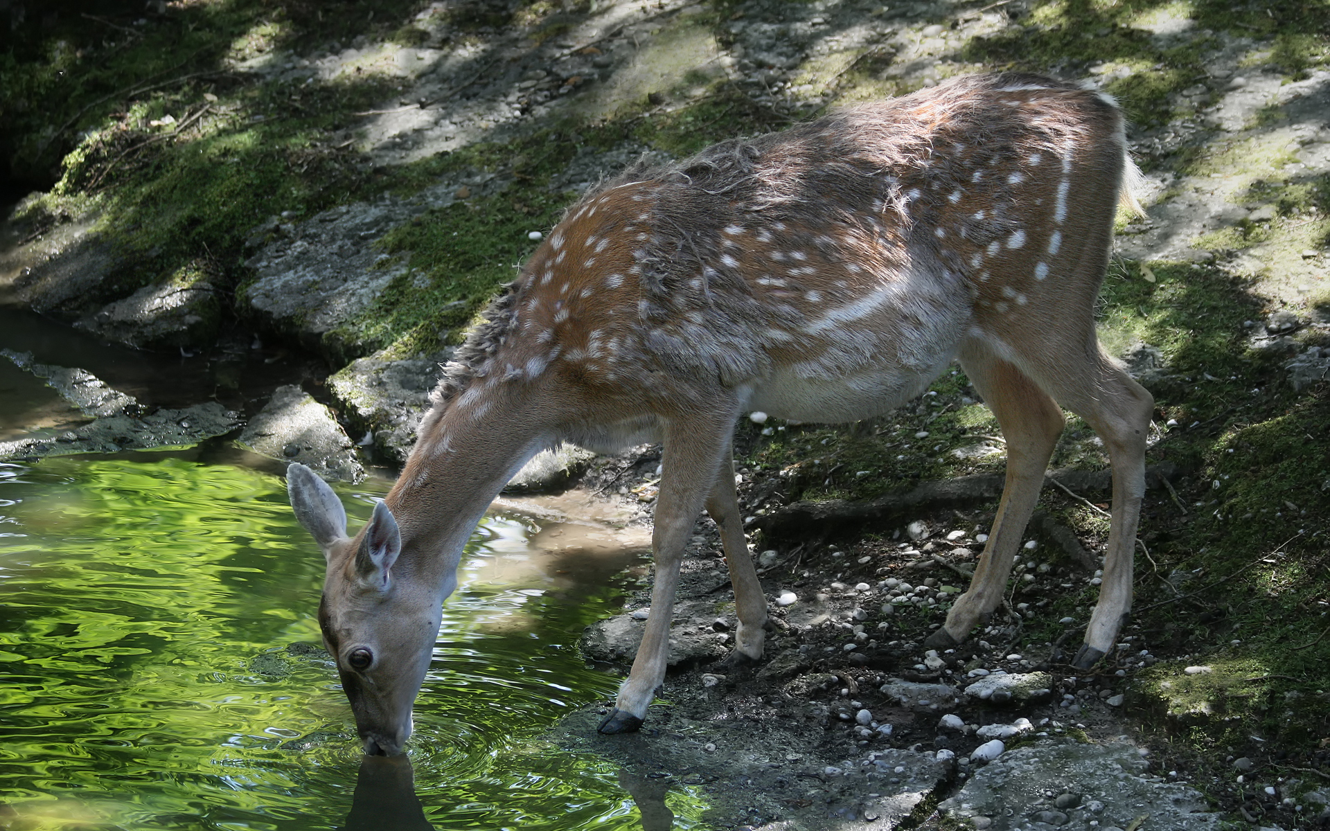 Description: The Fallow Deer (Dama dama) is a ruminant mammal belonging to the family Cervidae.